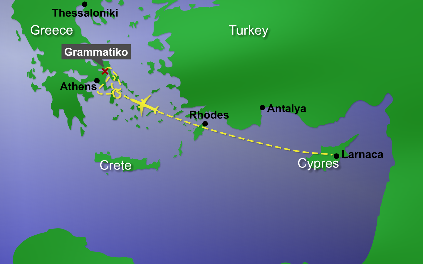 Map of Helios Airways Flight 522. Helios Airwyas Flight 522, crashed on August 14, 2005 near the community of Grammatiko in Greece. The map shows how the flight proceeded. First, the autopilot controlled the airplane in the direction of Athens airport. Then the airplane flew to the south and in loops over the Aegean Sea for about three hours. After that, the airplane flew in the direction of Athens airport again, until it crashed near Grammatiko.